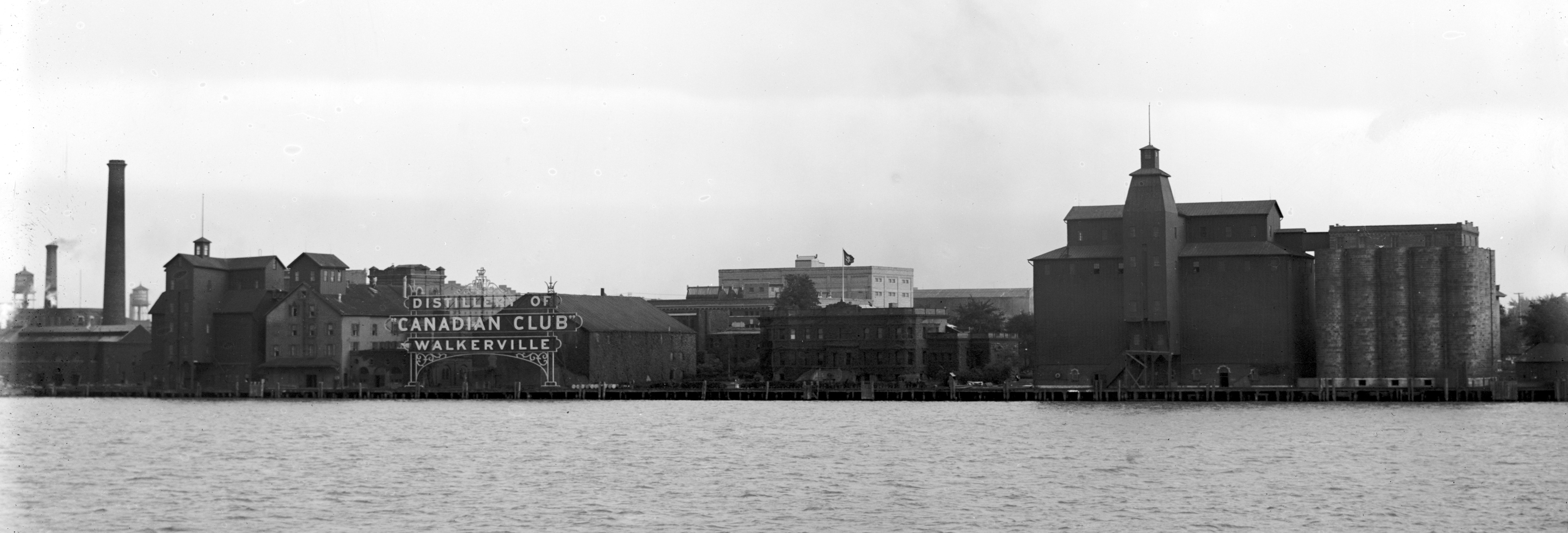 Distillery in Walkerville, now part of Windsor, Ontario.